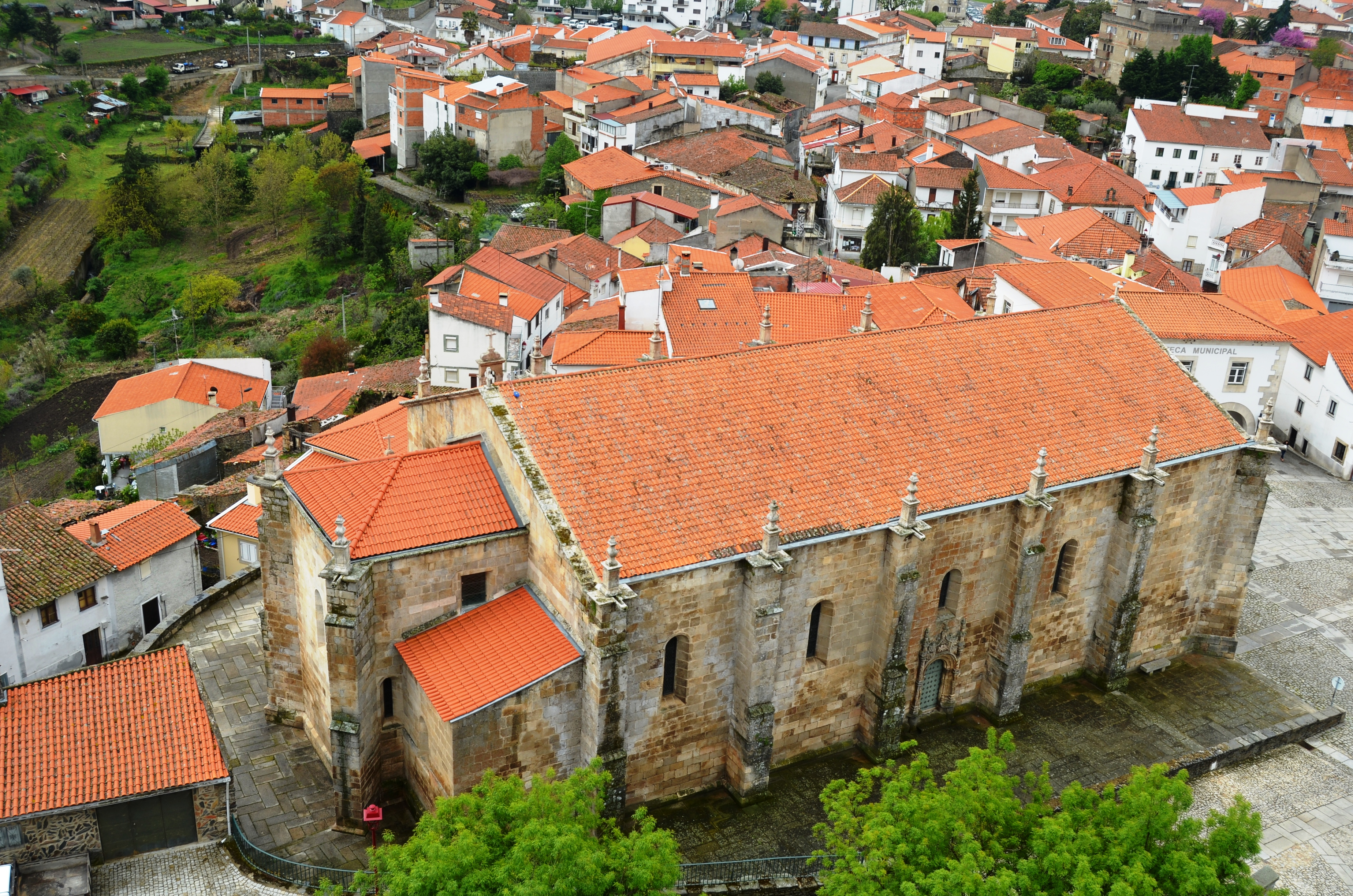 A view from the tower